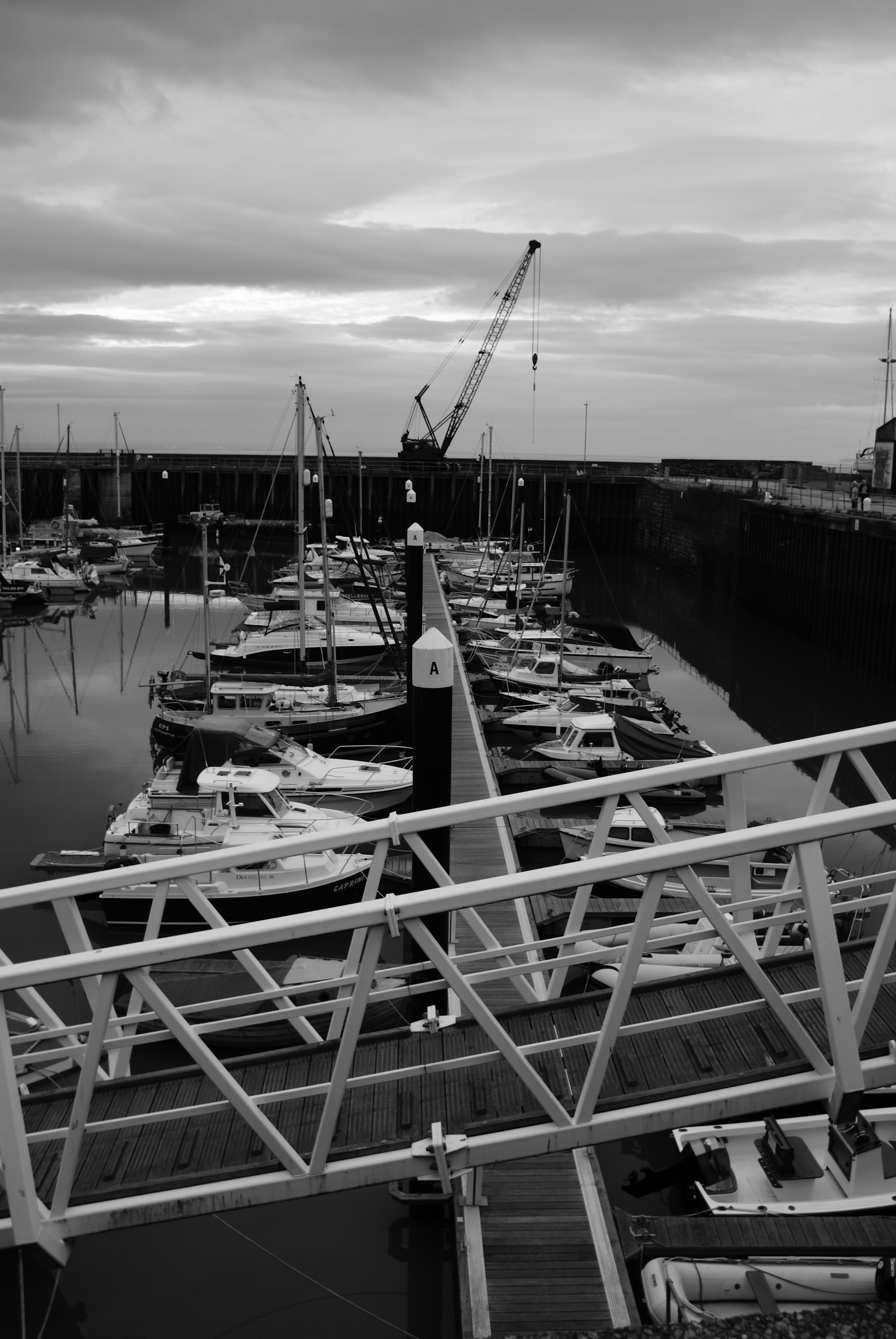 Watchet Marina in West Somerset, in monochrome, showing the gantry down to the marina, the jetty with boats moored in Section A. The Crane in the background is used to lift boats out of the harbour, for the use of repairing or renovating, the crane is mobile and can manouver around the habour wall to gain an optimum position for removal of boats. The photo was taken at 21:07 and at this location .